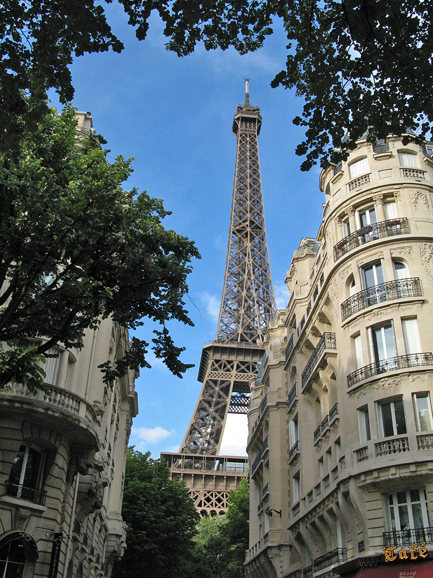 Eiffel Tower from the intersection of Ave. Suffren and Rue de Buenos Aires, looking in the direction of Rue de Buenos Aires. The Cafe on the right is Le Castel Cafe at 5 Avenue Suffren.